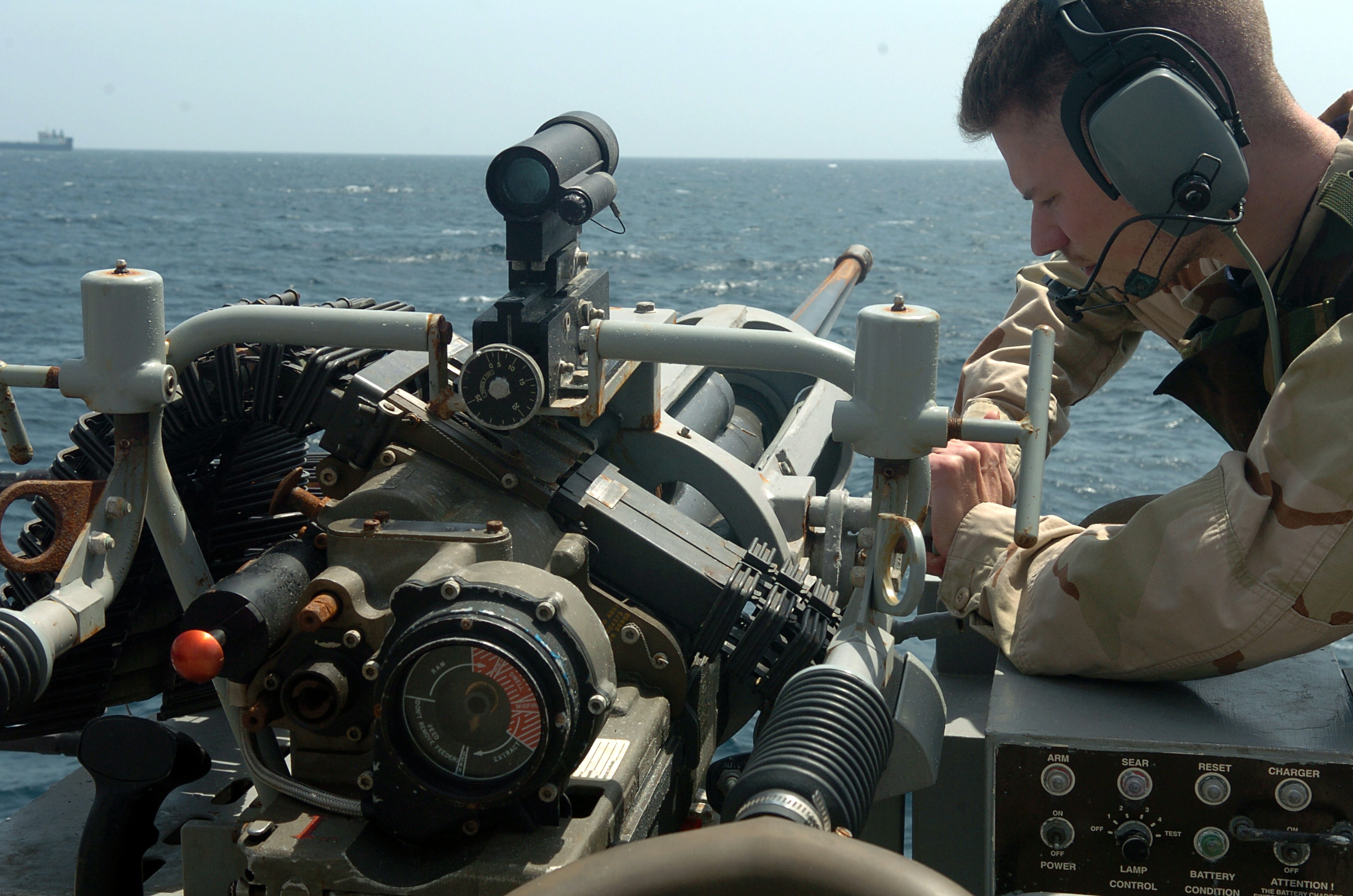 INDIAN OCEAN (Jan. 25, 2009) Information Systems Technician 3rd Class Adam Gayner mans a 25MM chain gun aboard the guided-missile destroyer USS Mason (DDG 87) while monitoring a small boat transiting from the merchant vessel MV Faina. Faina and her crew are being held by pirates off the coast of Somalia. Mason is conducting maritime security operations in the U.S. 5th Fleet area of responsibility. (U.S. Navy photo by Mass Communication Specialist 1st Class Michael R. McCormick/Released)